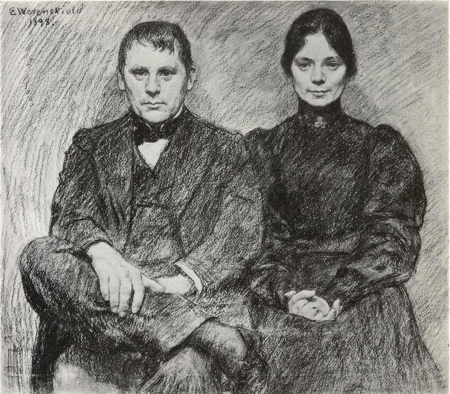 Bernt and Minka Grønvold drawn by Erik Werenskiold, 1898. Charcoal, 526 x 608 mm. KODE Art Museums and Composer Homes (Bergen Billedgalleri)